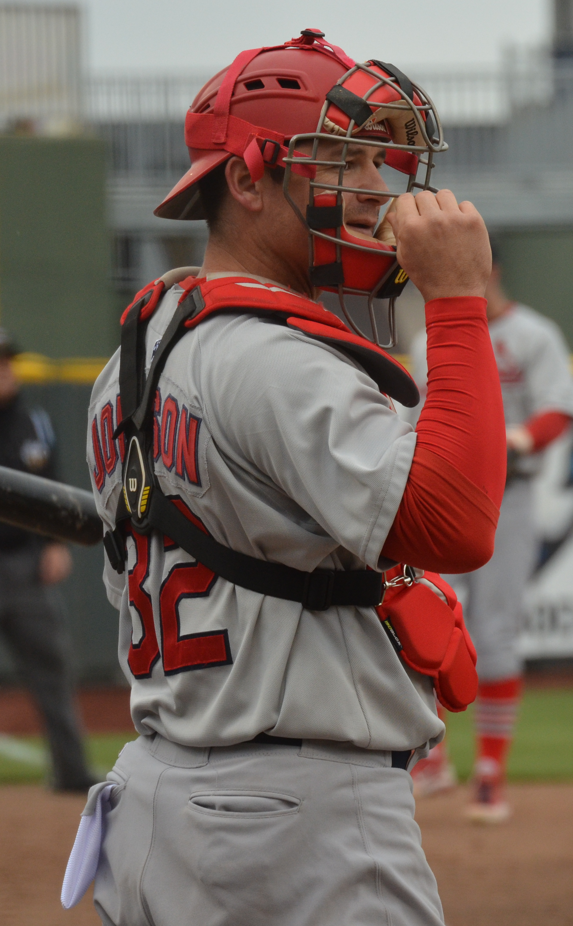 Rob Johnson